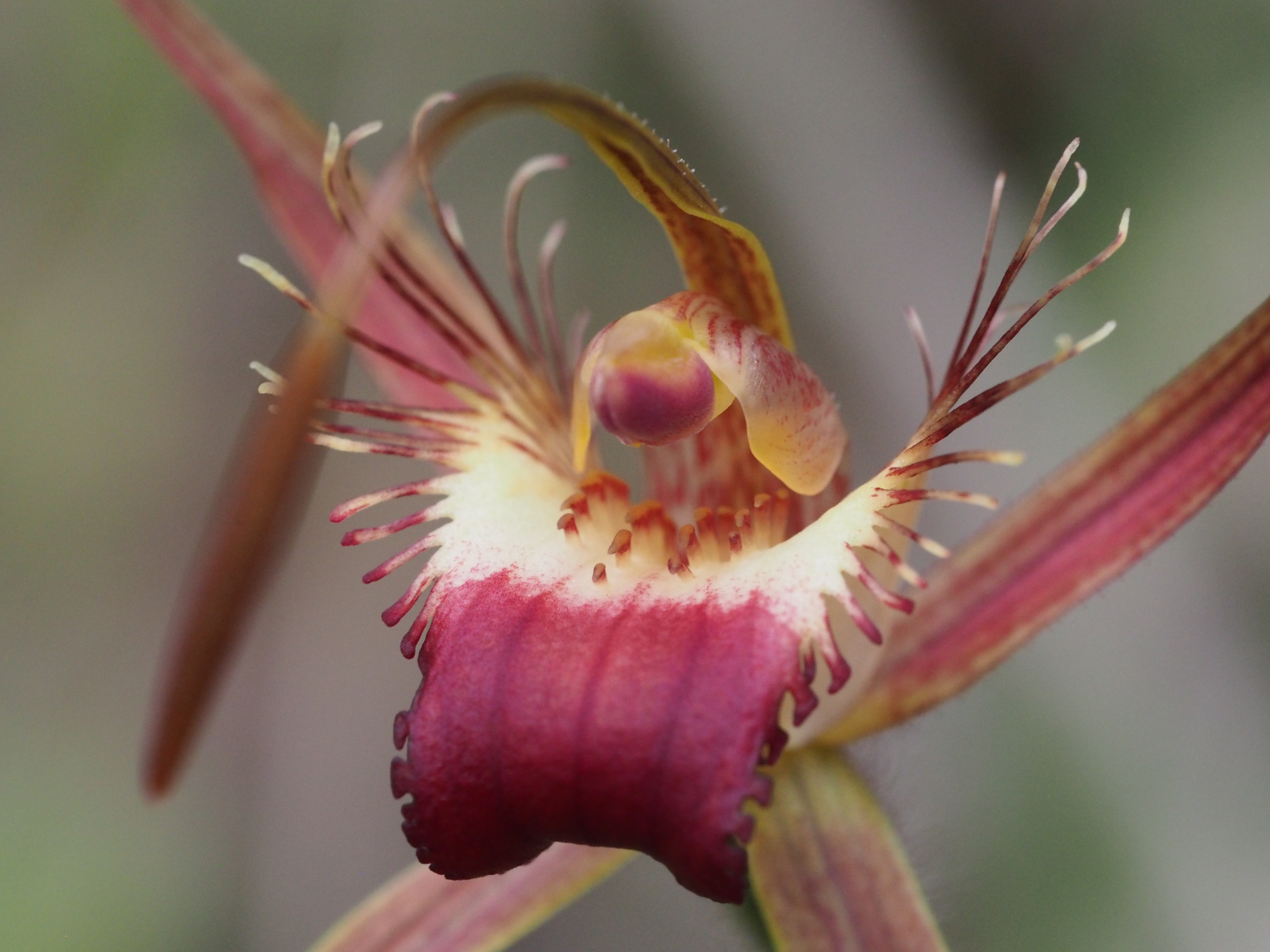 Caladenia ferruginea growing near Dunsborough